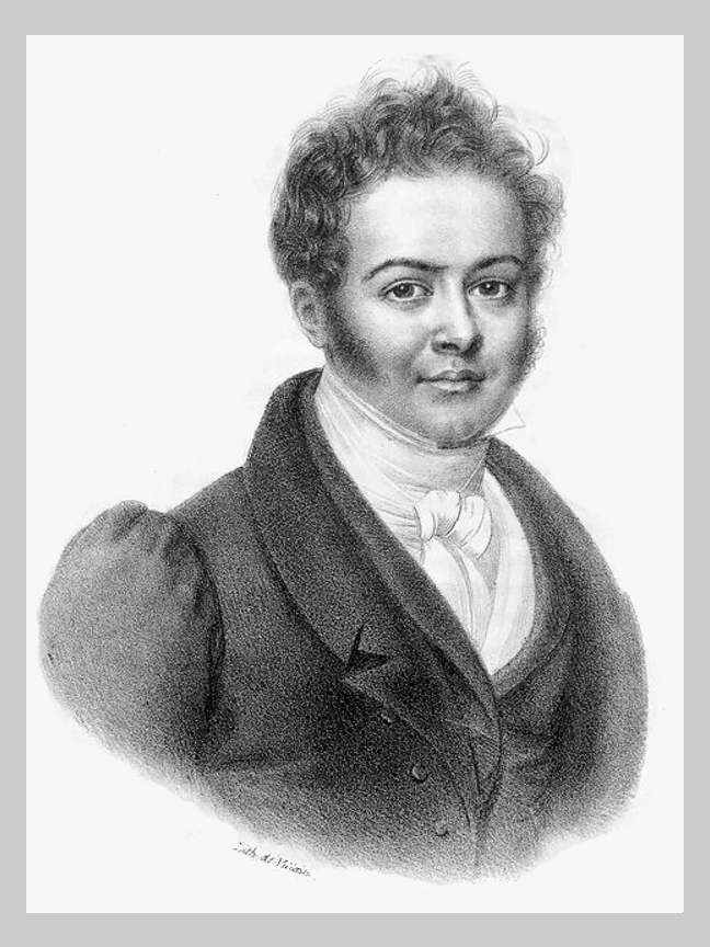 Cyrille Bissette (1795-1858). Print by François Le Villain from Précis historique de la traite des noirs et de l'esclavage colonial, contenant l'origine de la traite, ses progrès, son état actuel... Orné des portraits de MM. Bissette, Fabien et Volny, condamnés, par la cour royale de la Martinique, aux galères à perpétuité, en vertu d'une loi du XVIe siècle, pour avoir lu une brochure prétendue séditieuse. by Joseph Elzéar Morénas, Paris : F. Didot, 1828, p. 267.